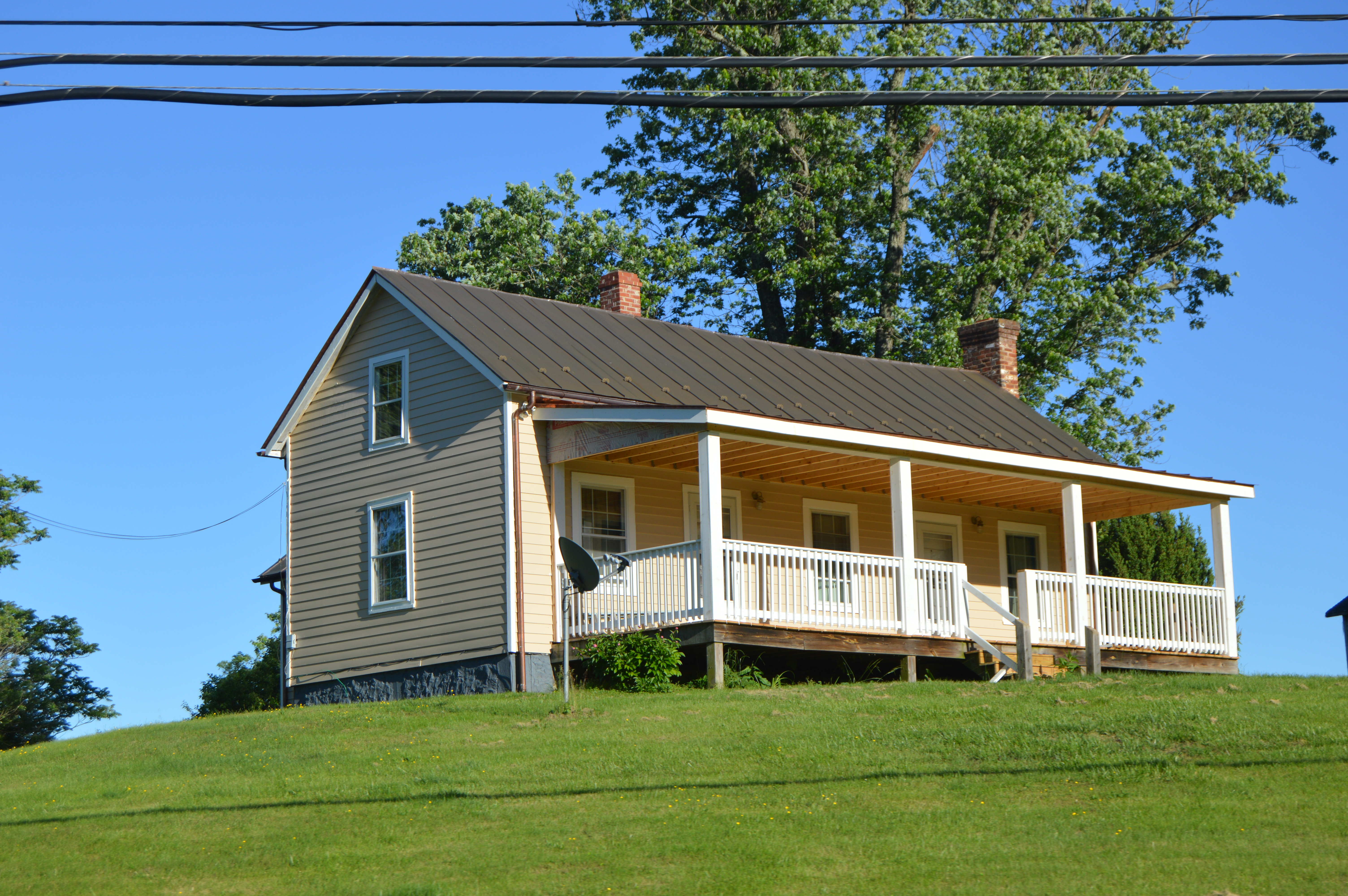 Front and northwestern side of a tenant house at the Riverside Farm, located on State Routes 56/151 by Roseland in Nelson County, Virginia, United States. The farm complex is listed on the National Register of Historic Places.